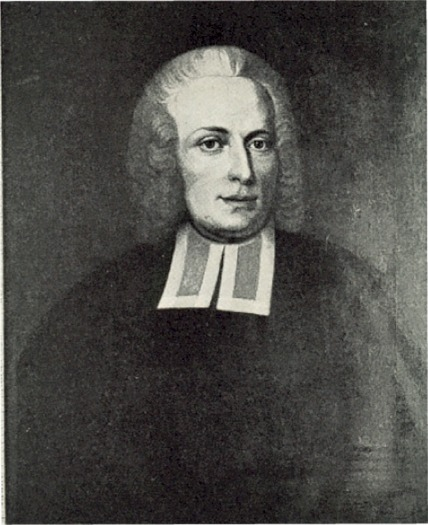 Portrait of Sven Bælter (1713-1760), Swedish clergyman. Painting owned by Gästrike-Hälsinge nation, student society at Uppsala University in Sweden.